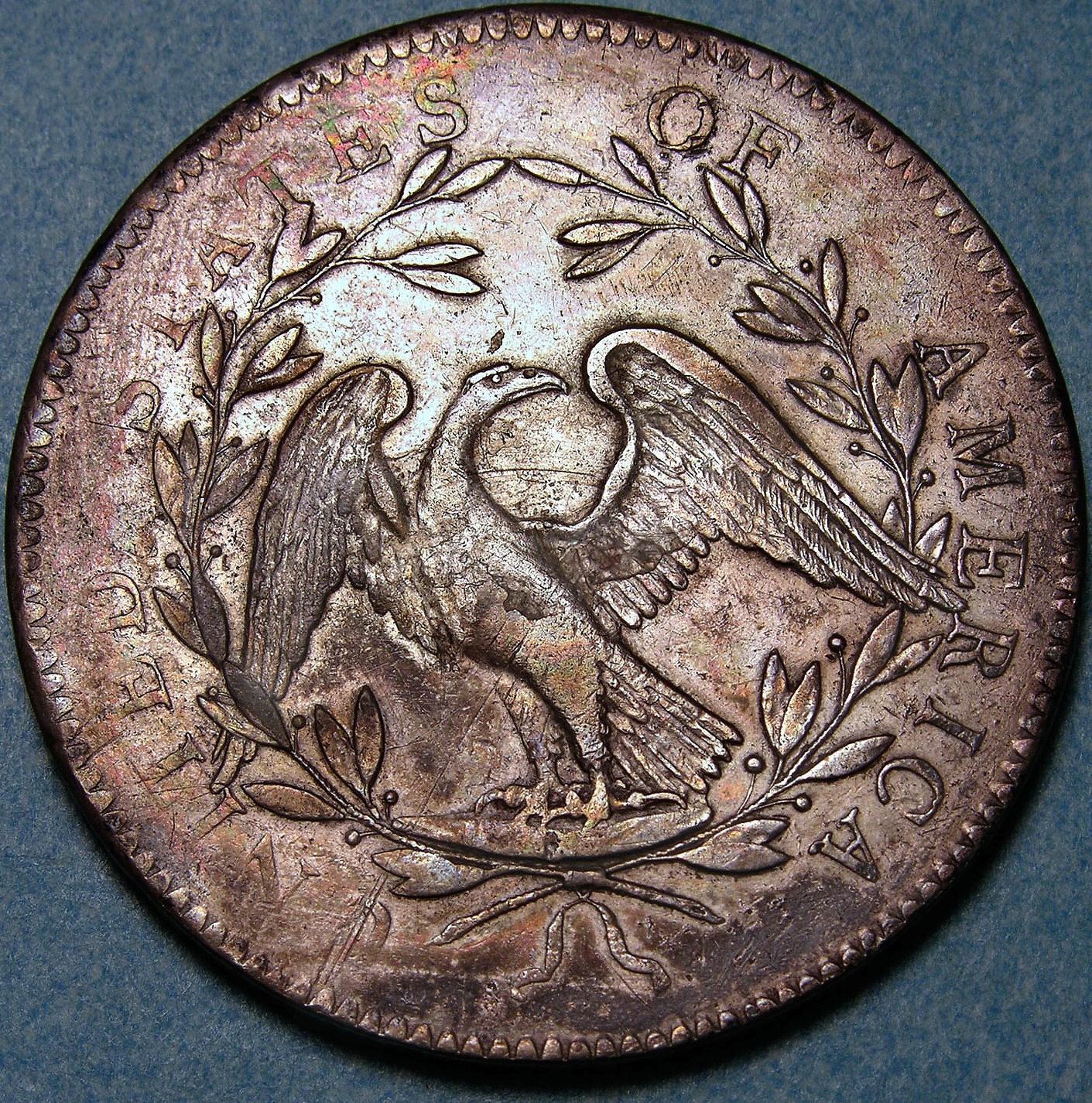 Reverse illustration of a Flowing Hair dollar